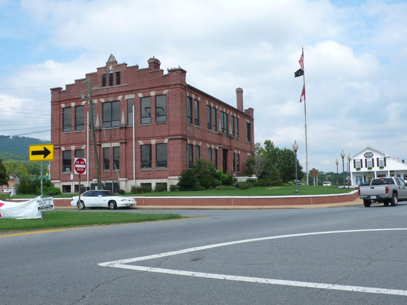 The Dade County Courthouse in Trenton, Georgia.